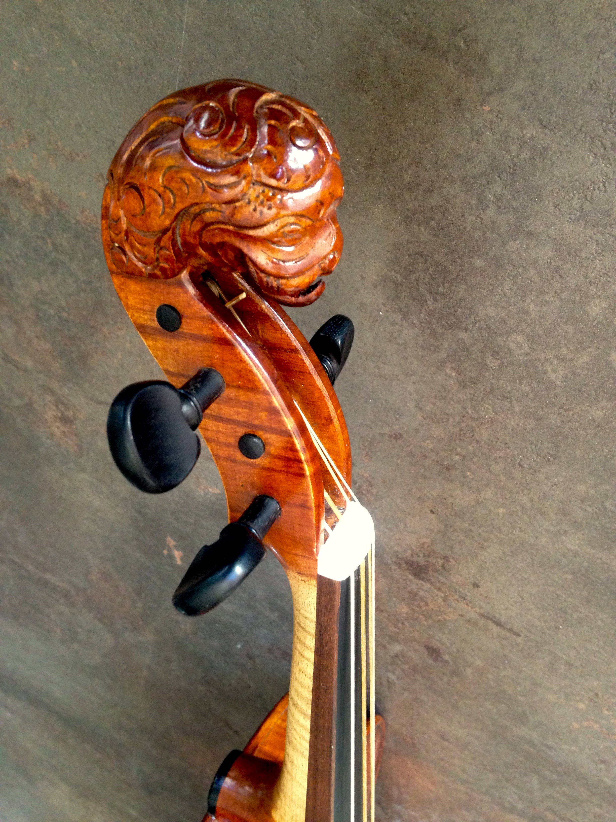 Walther Mahr Barock Geige 2010 - Löwenkopf